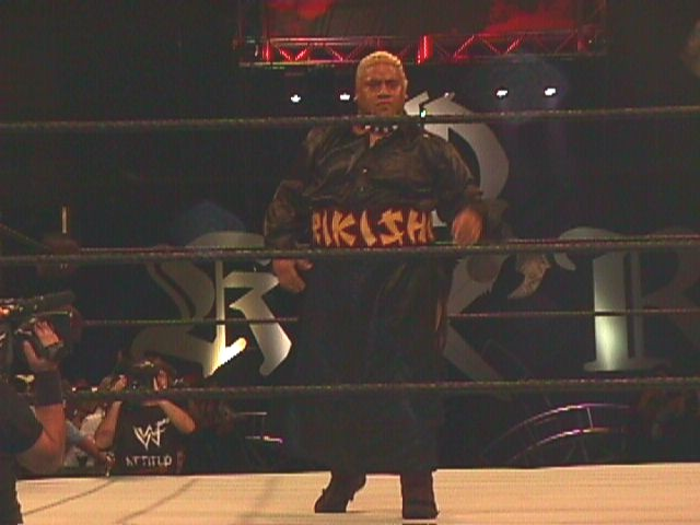 Rikishi at the WWF King of the Ring at the Fleet Center in Boston, MA in 2000 - WWE.